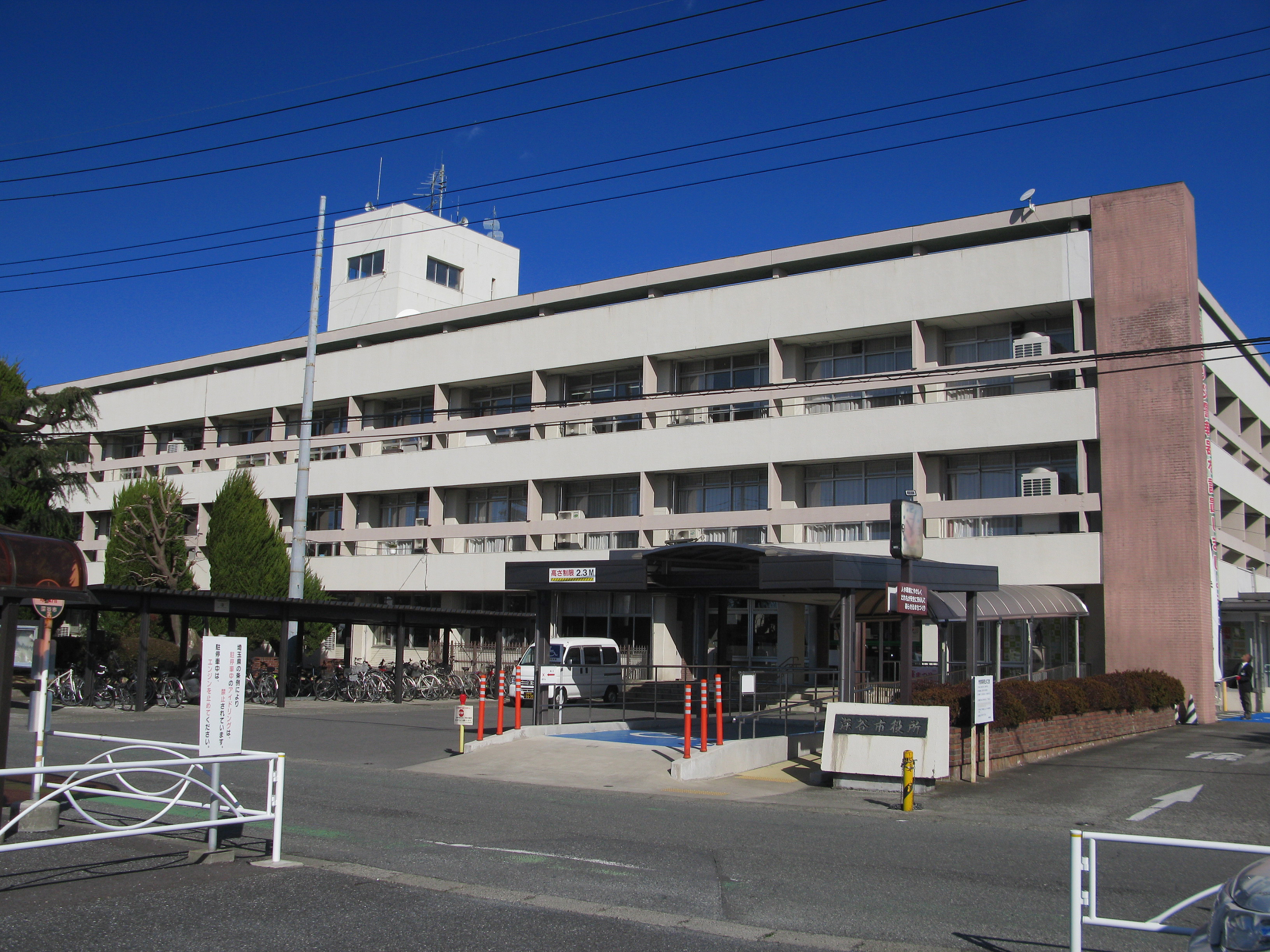 FukayaCity Hall, Fukaya, Saitama, Japan